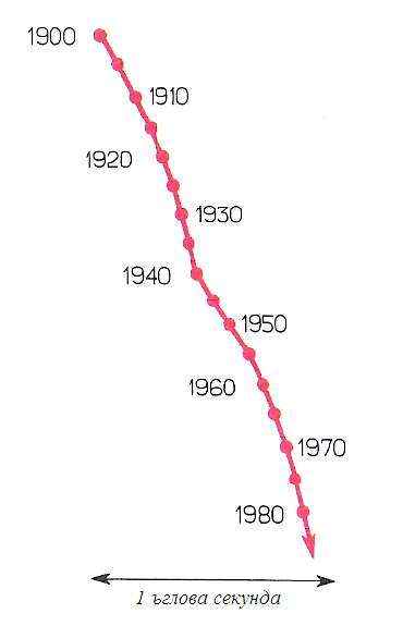 Sirius trajectory on the sky through the years (editted in Bulgarian)